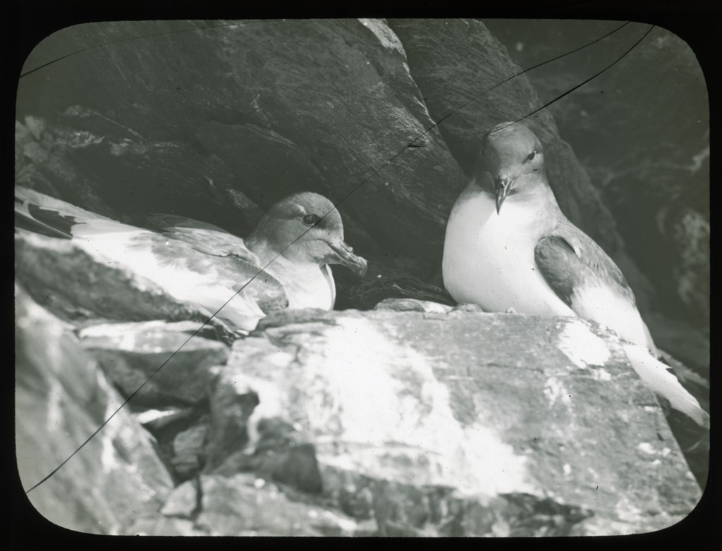 Antarctic petrels on the nest [Australasian Antarctic Expedition, 1911-1914].